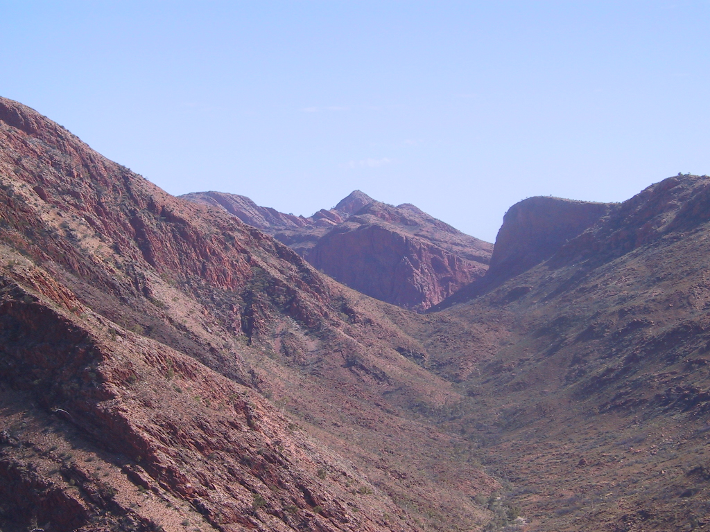 Along the Larapinta trail from a ridge of the West MacDonnell Ranges. This image was taken in mid-2004 about 100 kilometres west of Alice Springs.